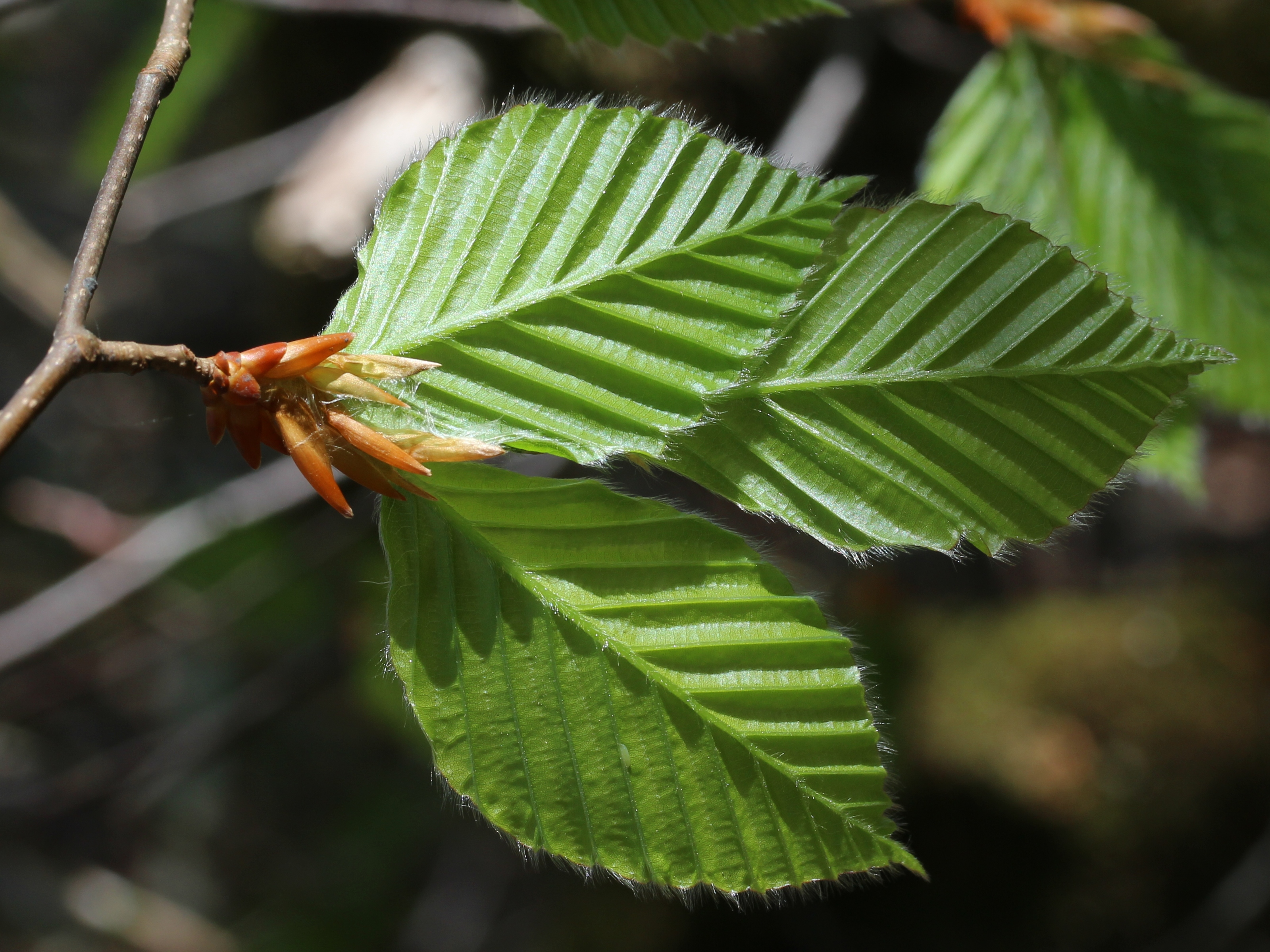 Leaves (back) of Fagus crenata, in Mount Mominuka, Gifu prefecture, Japan.